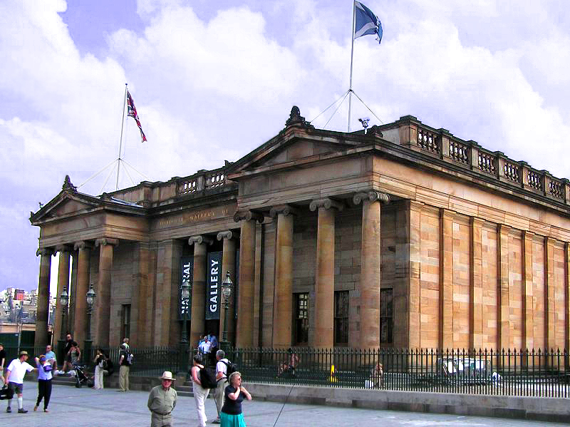 The National Gallery of Scotland on the Mound in Edinburgh, Scotland. Photo taken by Finlay McWalter on 7th August 2004